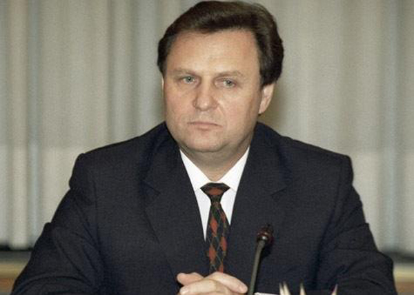 Chairman of the 1st State Duma Ivan Rybkin